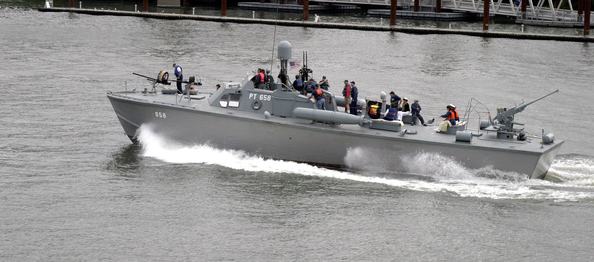 Portland Ore. (June 10, 2006) - Patrol Torpedo Boat (PT) 658 transit past U.S. Navy ships at the Portland Rose Festival. PT 658 was saved by volunteers and veterans from the Oregon area. The group successfully restored the 50-Ton World War II Motor Boat to full operational condition including the full armament and three original Packard V-12 engines.